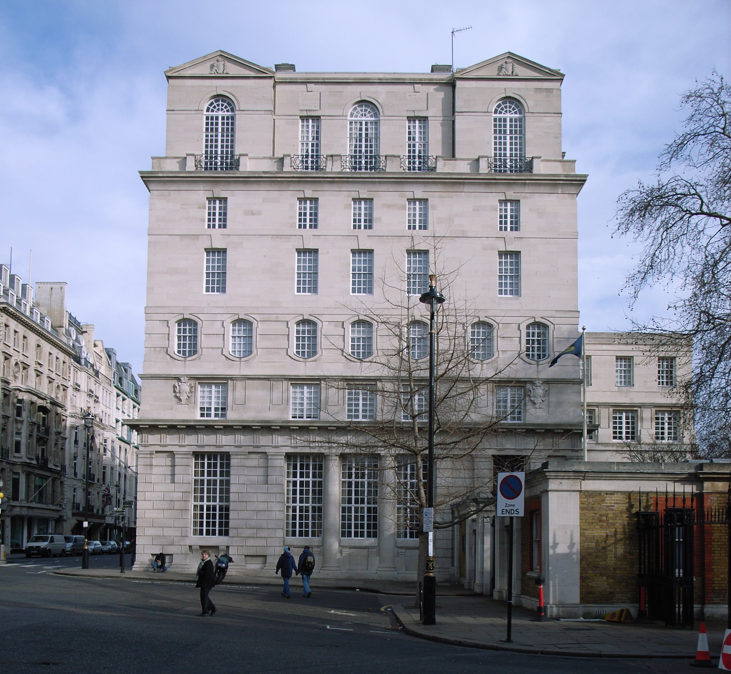 67-8 Pall Mall (1929) by Edwin Lutyens. (I know I'm repeating myself with this photo, but I messed up the exposure the last time. )